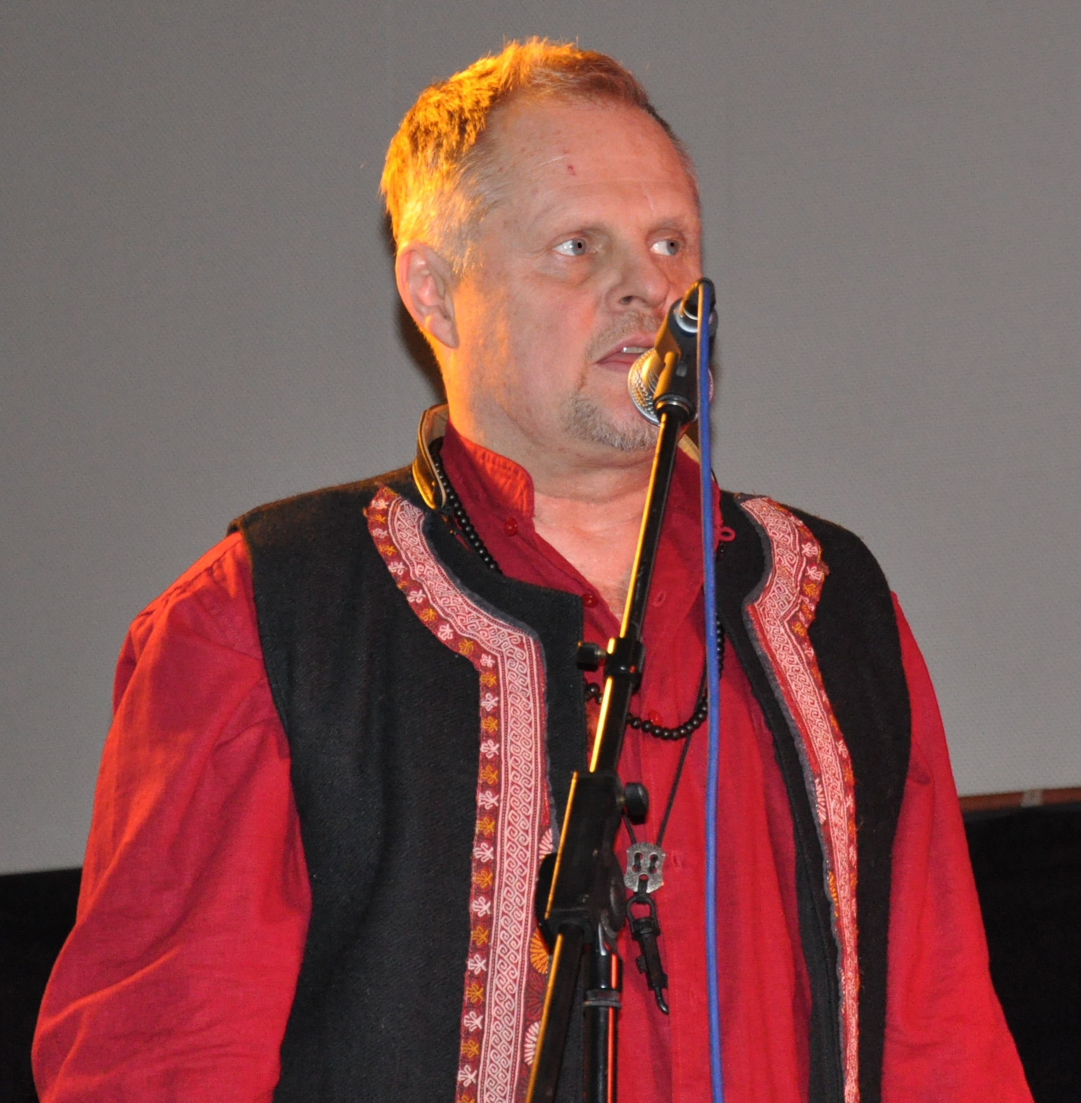 Finnish musician Sakari Kukko at a gig with Piirpauke in Turku 2009.